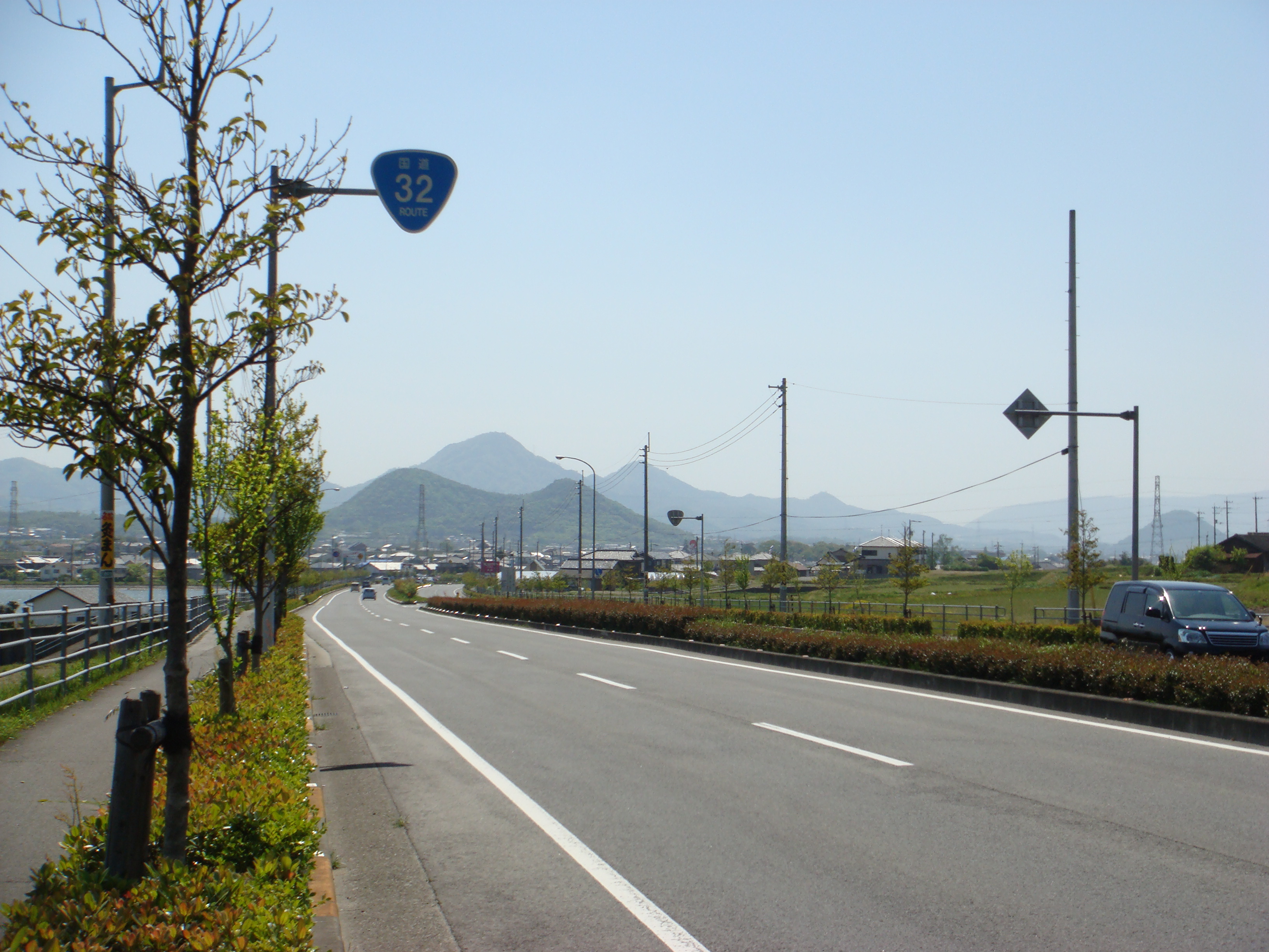 Route32_ryonan_by-pass001（Kagawa Japan)